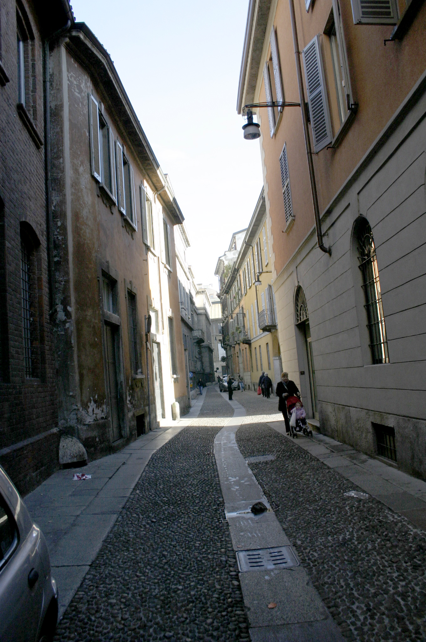 Via del Carmine street in the Brera area in Milan (Italy). Picture by Giovanni Dall'Orto, January 19 2007.